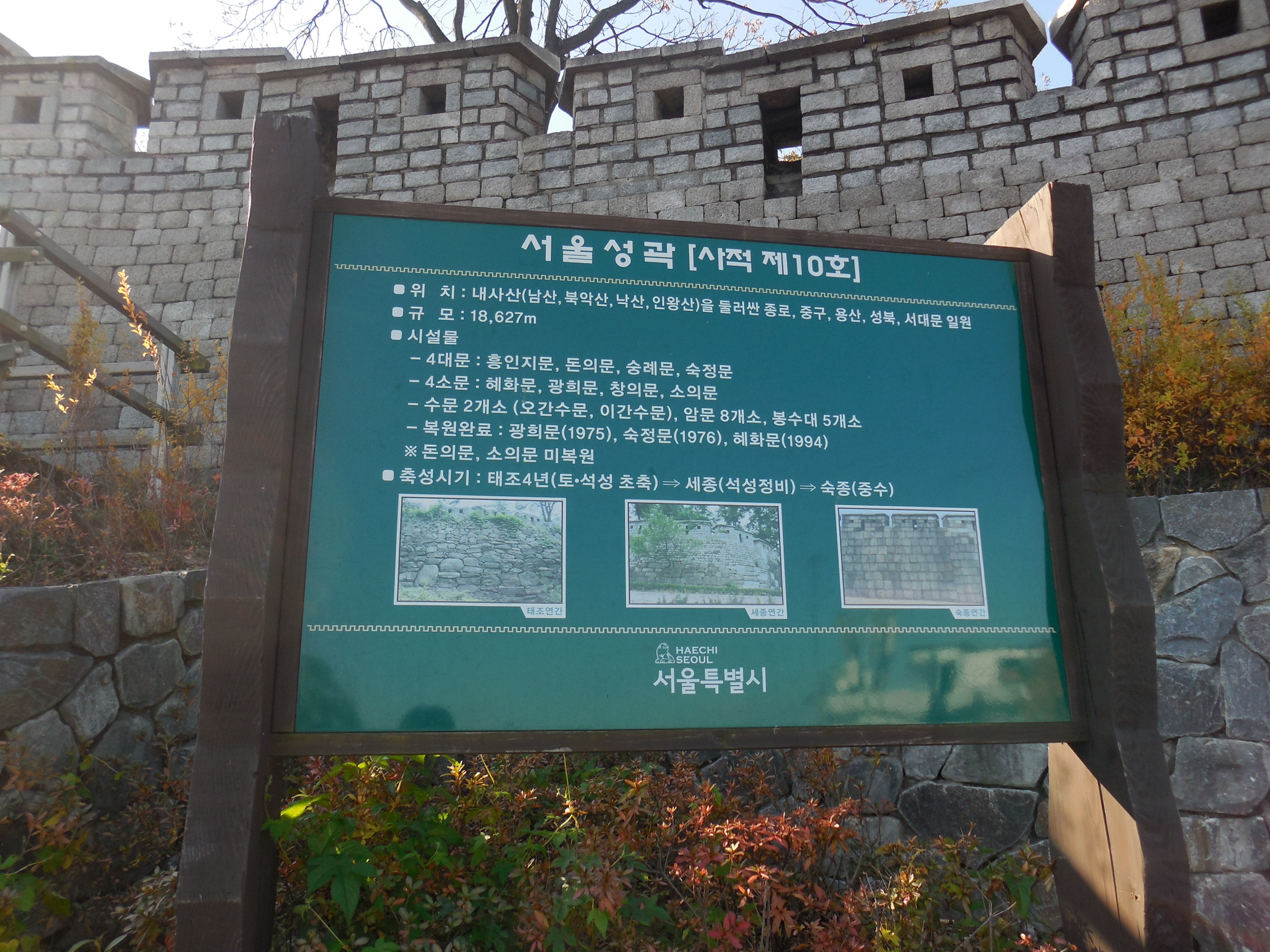 Sign explaining Fortress Wall of Seoul, in Naksan.